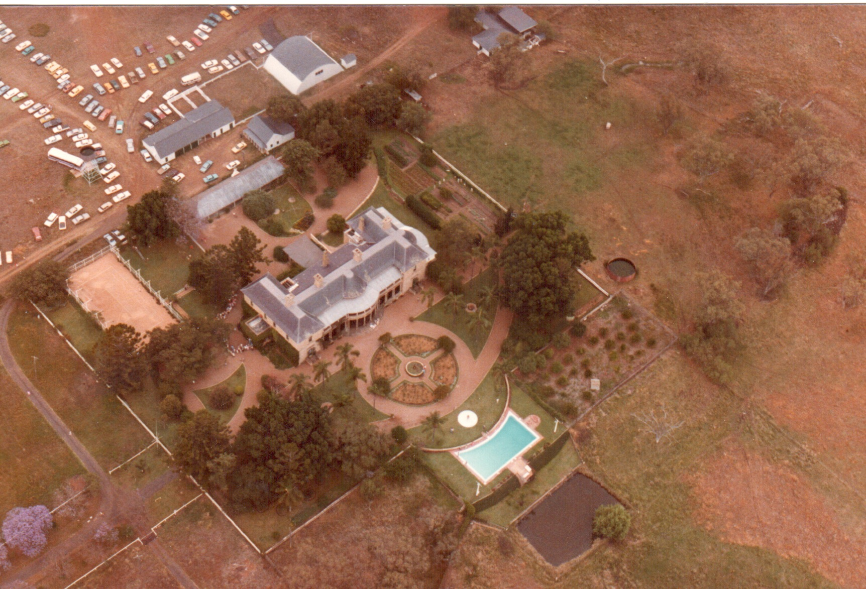 Jimbour is the main homestead on one of the earliest stations established on the Darling Downs, is important in demonstrating the pattern of early European exploration and pastoral settlement in Queensland, Australia.